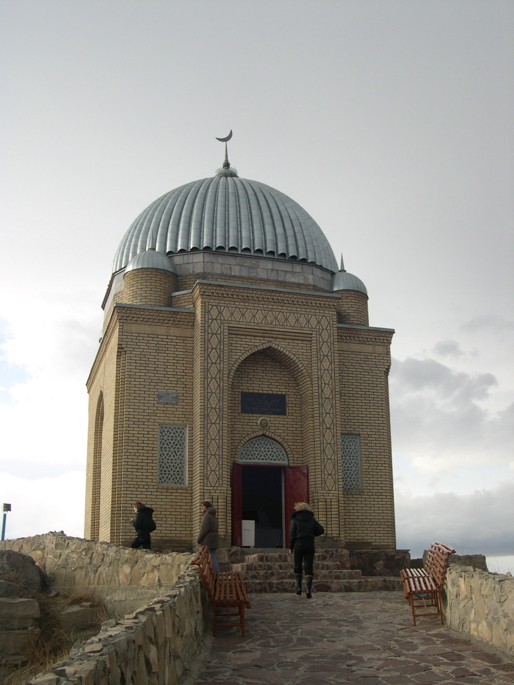 The mausoleum of Tekturmas itself!